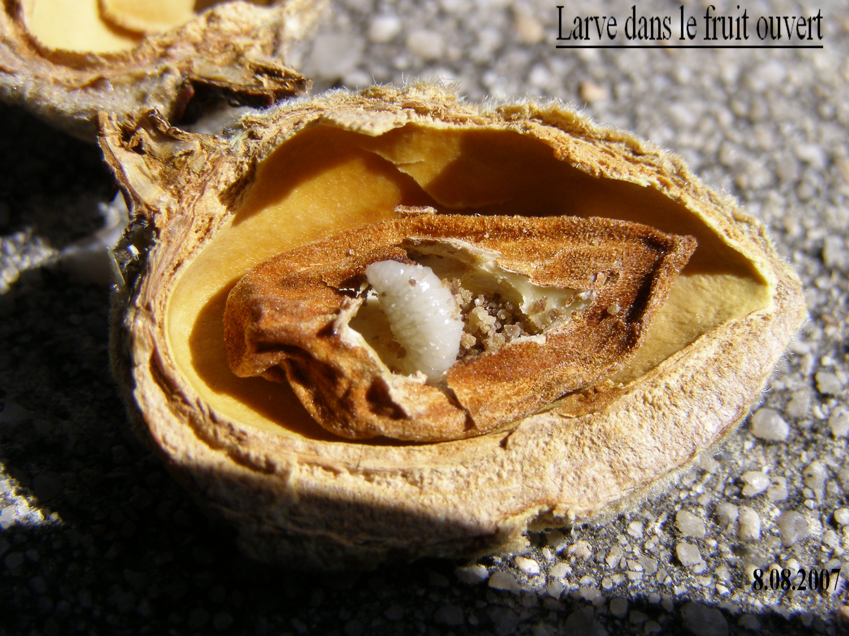 Larva of Eurytoma amygdali inside the almond (Prunus dulcis), in august.